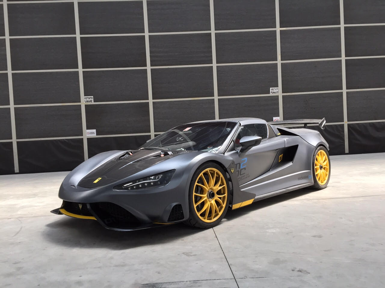 TS600